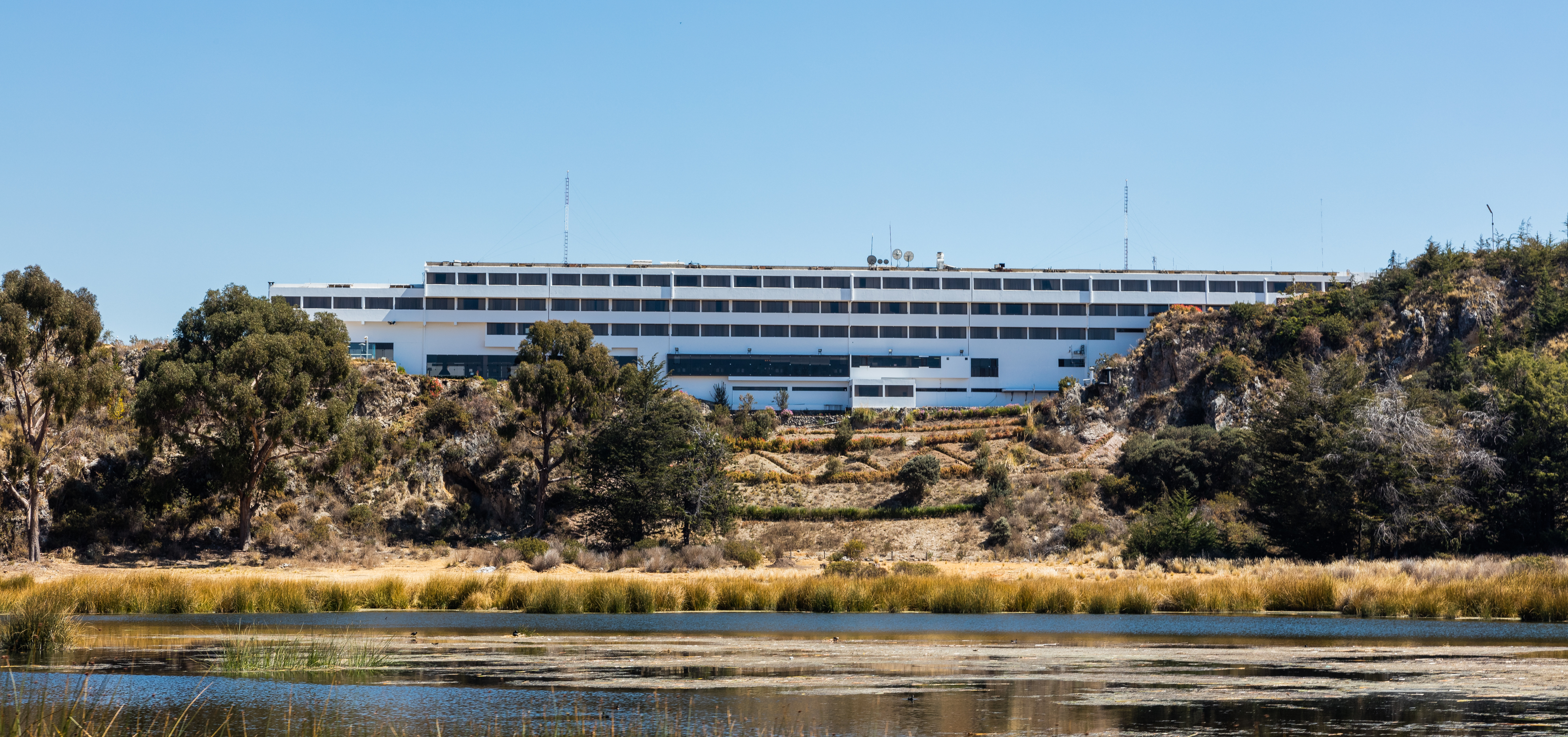 Hotel Libertador, Puno, Peru